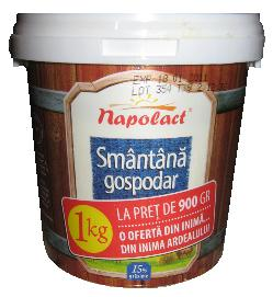 Napolact Samantana Gospodar (Gospodar Cream)